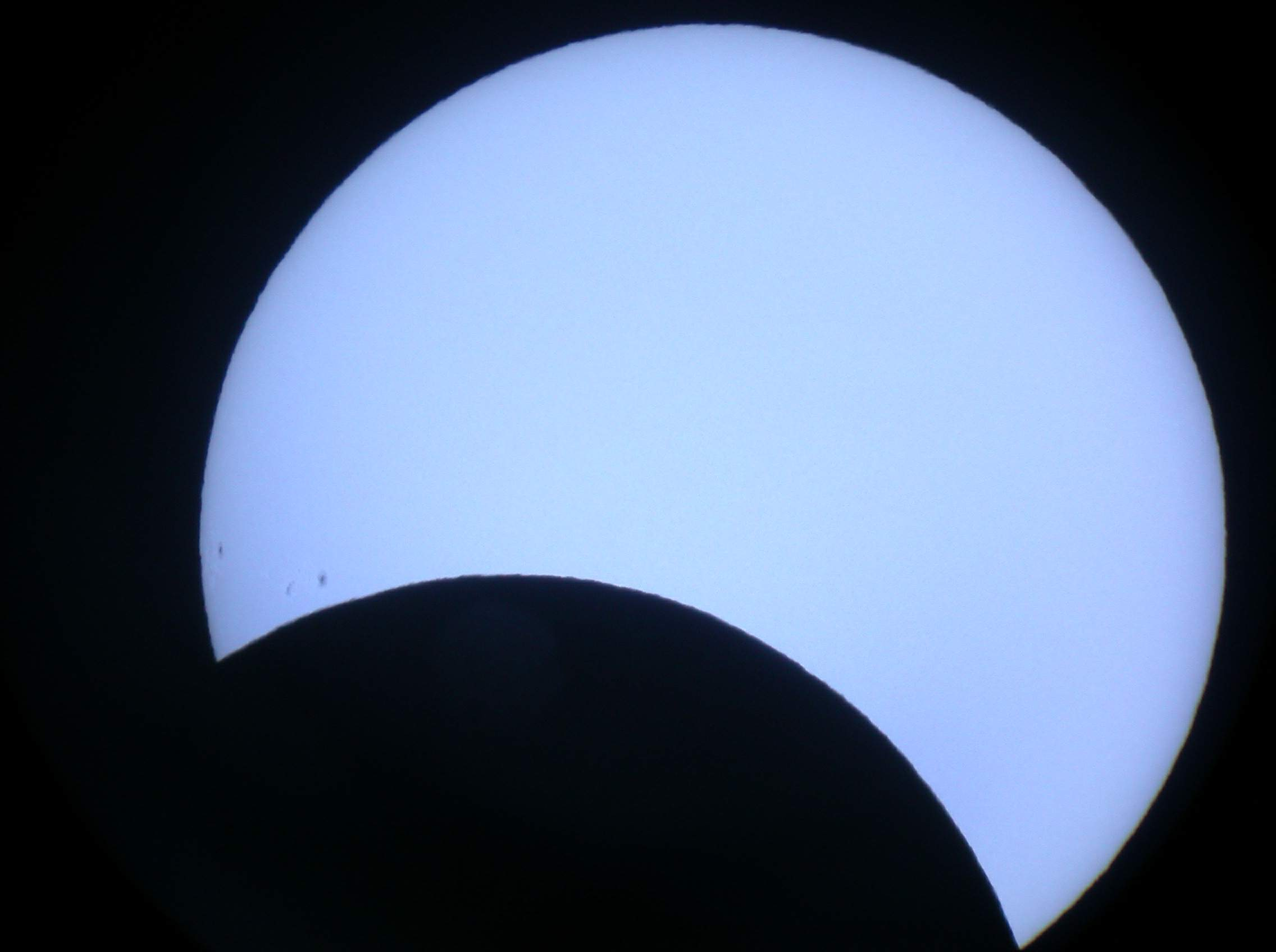 Solar eclipse on 19 March 2006 seen from Valencia, Spain, where a maximum phase of 0.42 was reached, whence this photo taken by Xgarciaf. 12h 16m standard time (10h 16m 5s T.U.)